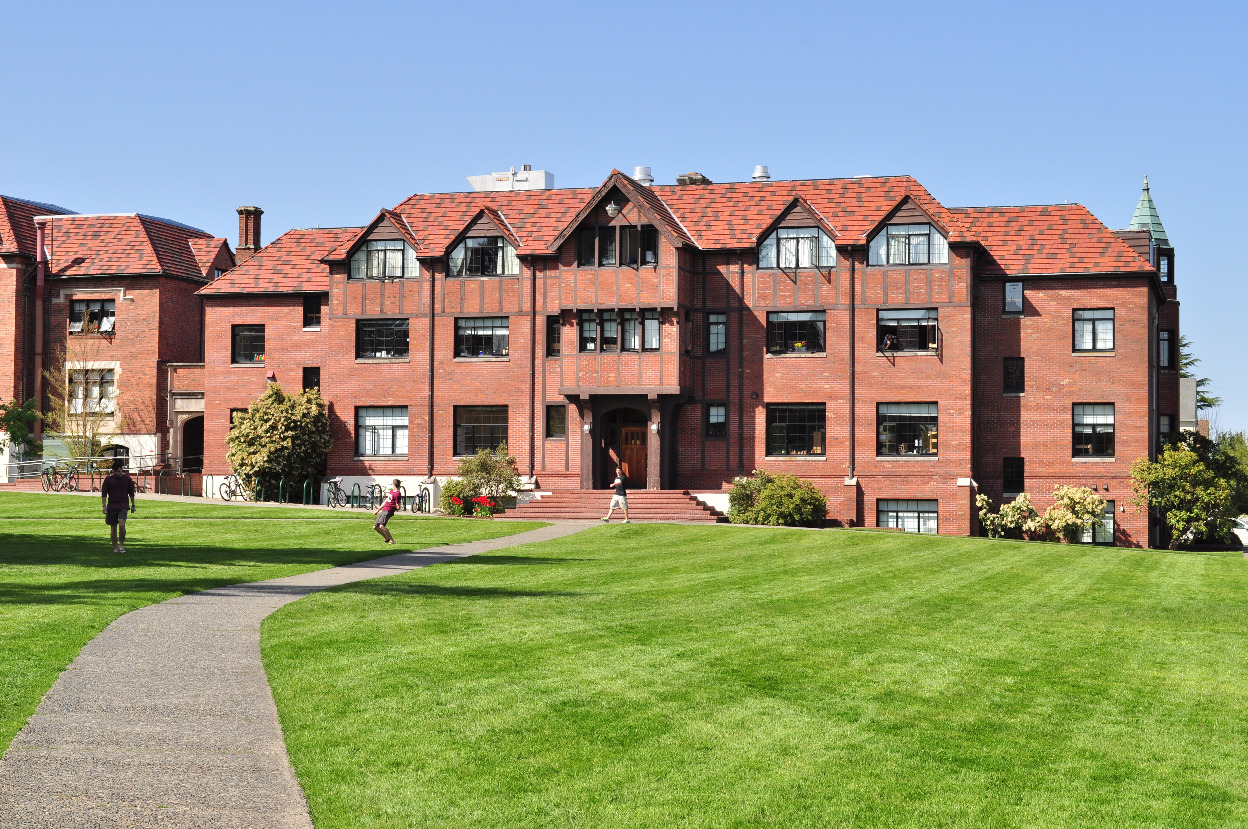 Schiff Hall, University of Puget Sound, Tacoma, Washington.